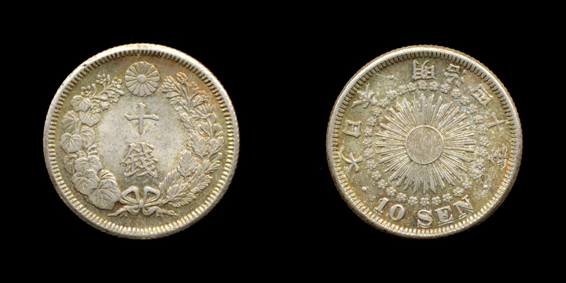 10sen-M40